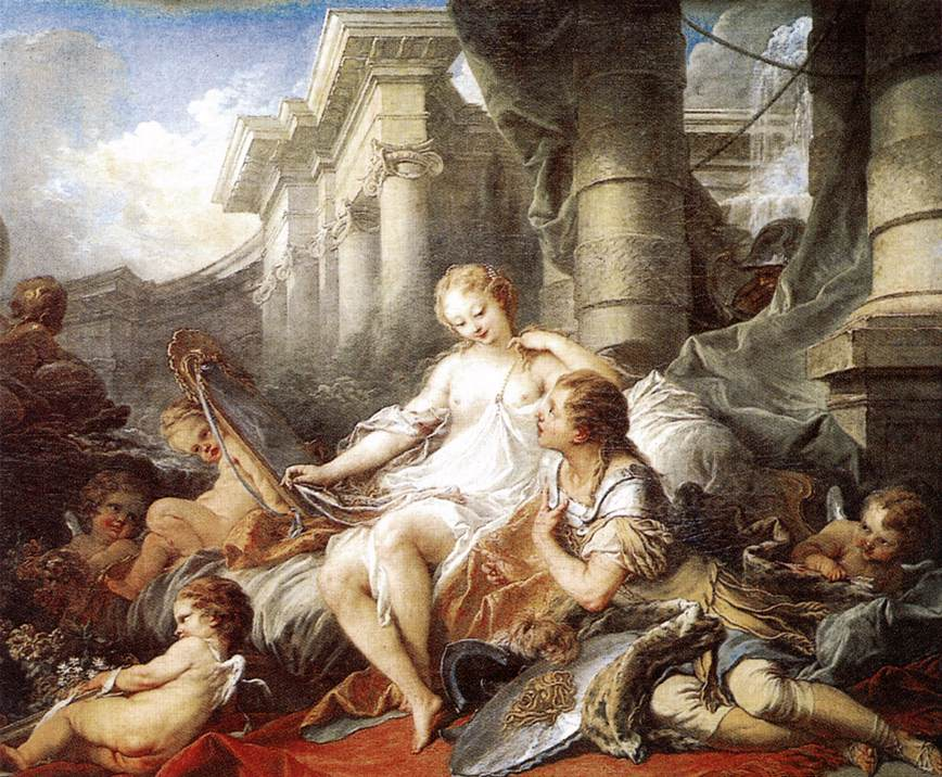 Rinaldo and Armida, by Francois Boucher, 1734; this painting gained Boucher entrance to the Academie (Louvre Museum)